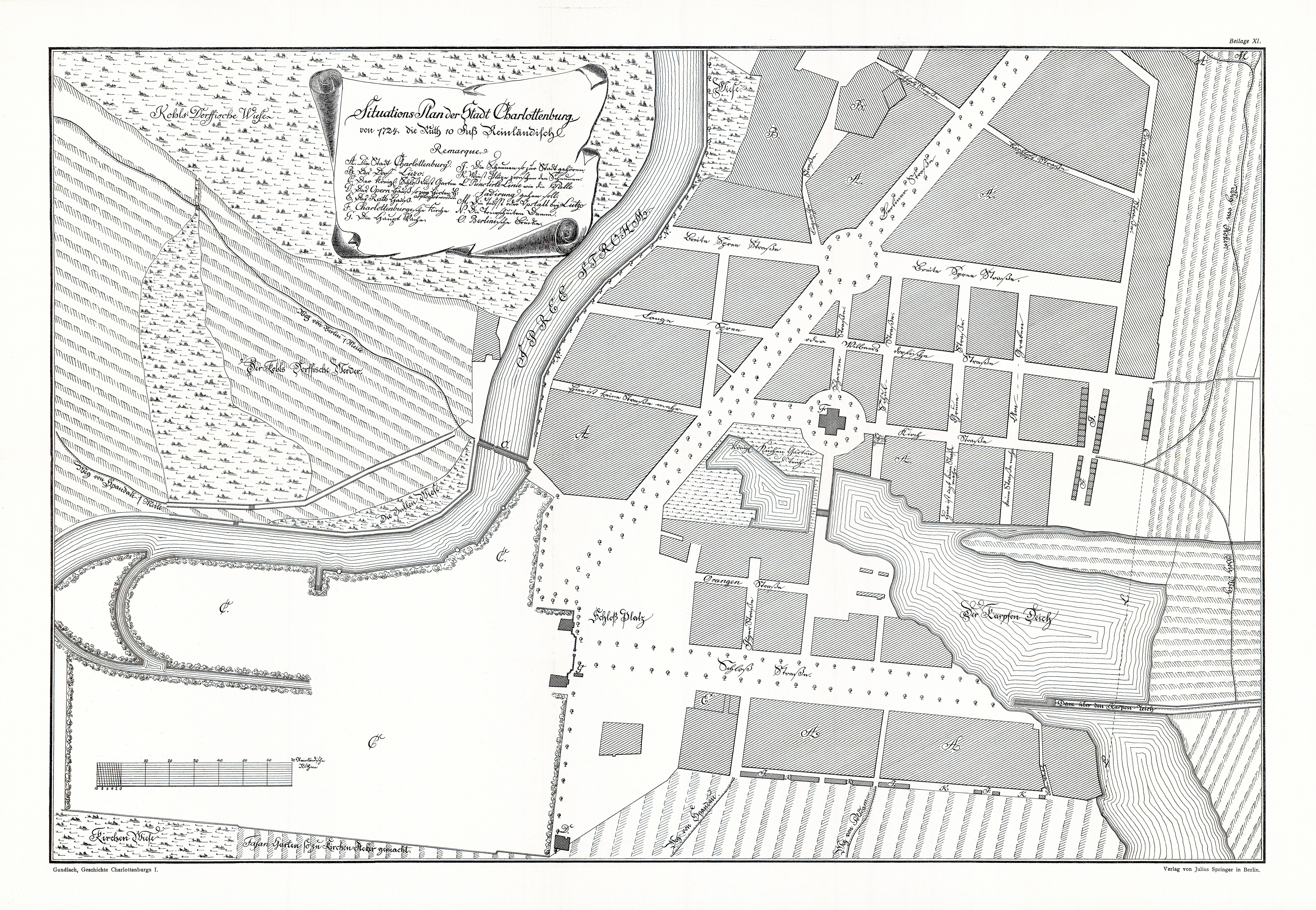 General plan of the City of Charlottenburg, 1724 by Remarque, east-up orientation